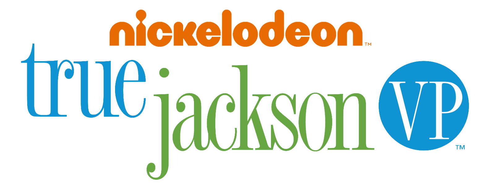 True Jackson logo